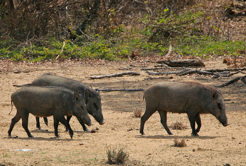 Wild Boar Sows